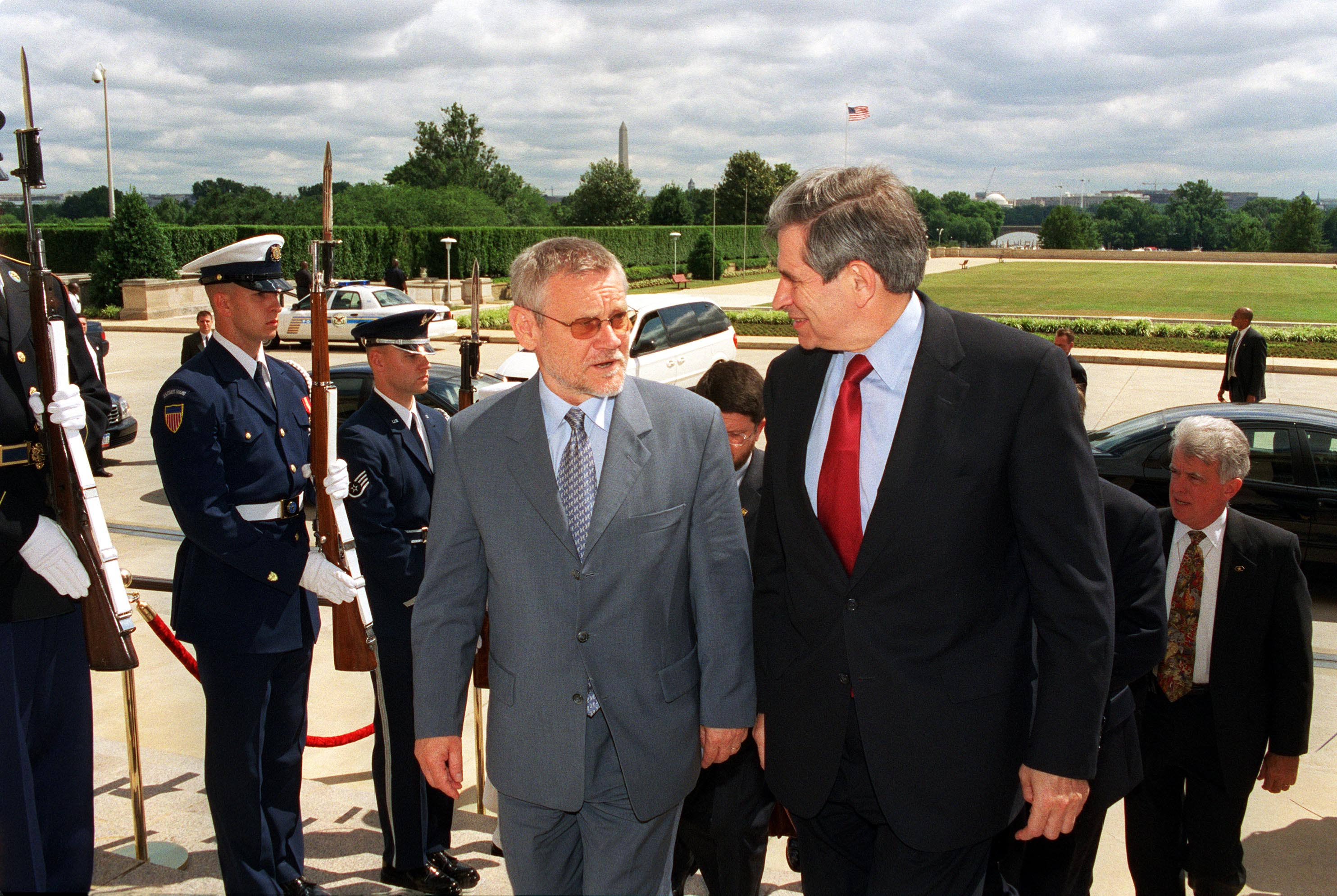 Croatian Prime Minister Ivica Racan (left) arrives at the Pentagon on June 7, 2002, for a meeting with Deputy Secretary of Defense Paul Wolfowitz. Racan and Wolfowitz will meet to discuss a range of bilateral security issues.